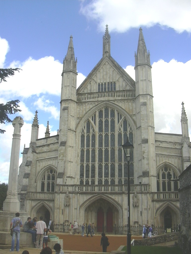 This picture shows cathédrale of Winchester.